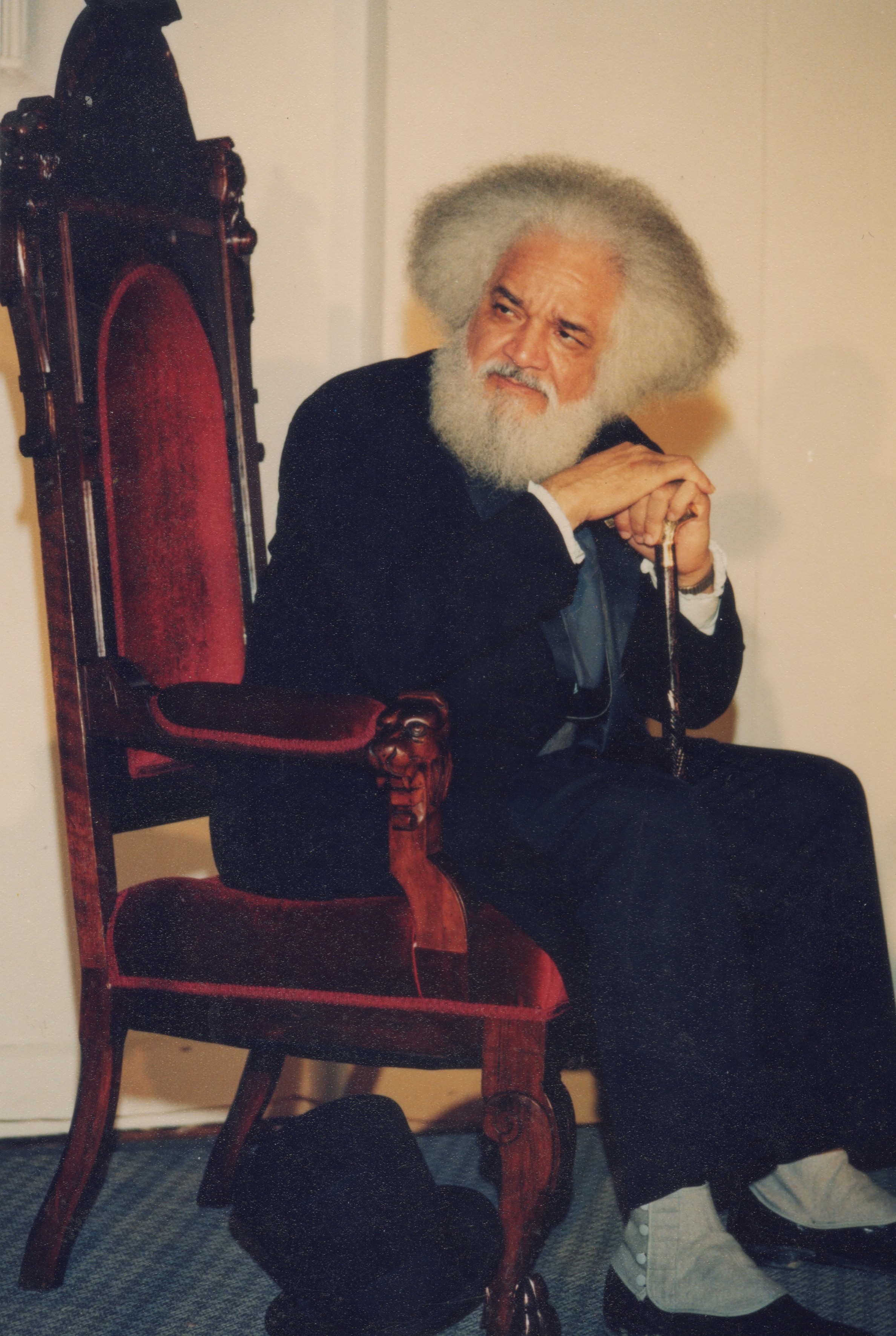 From depiction of Frederick Douglass